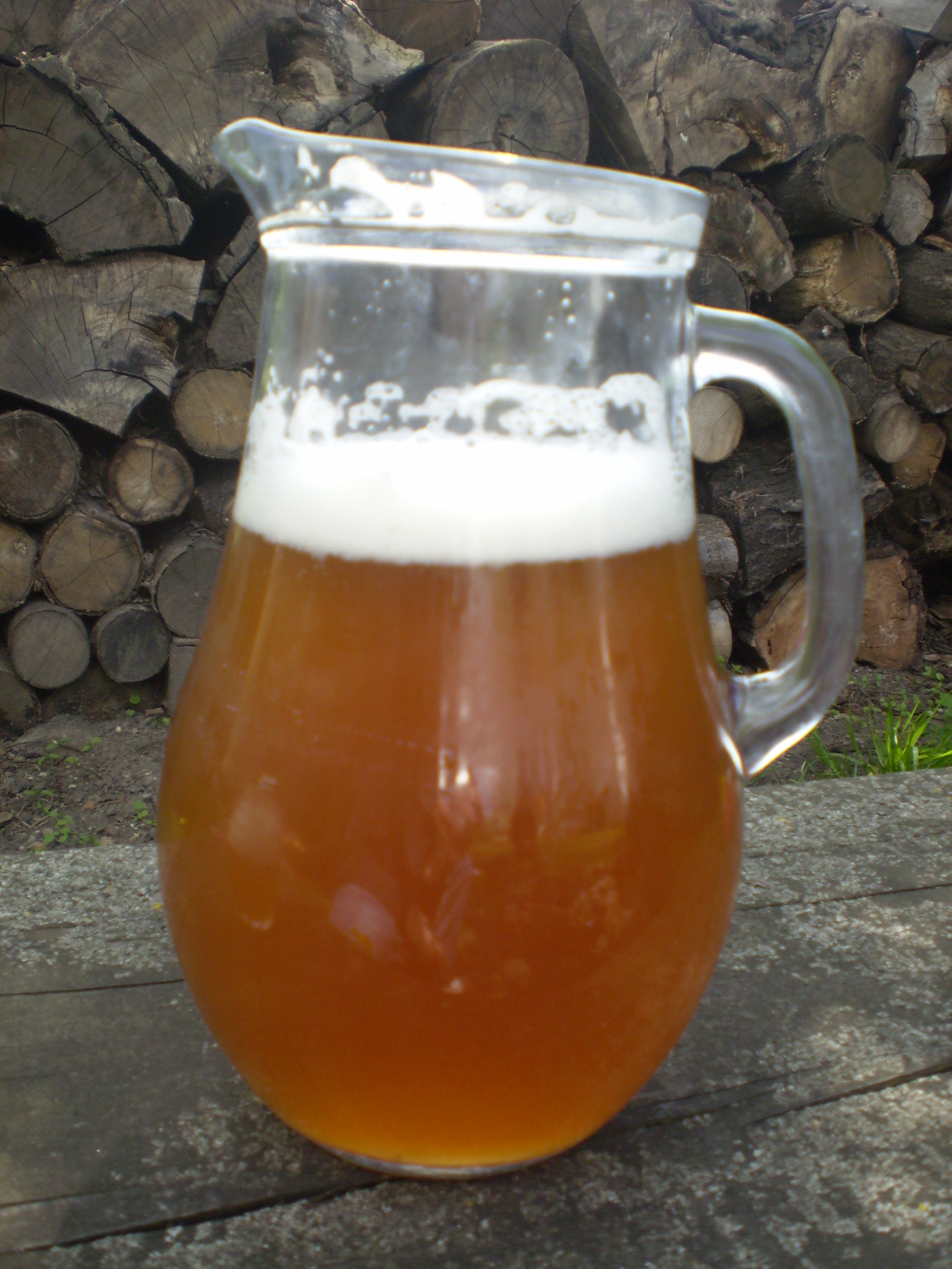 A pitcher of turbid lager, served in the beer garden of Dalešického brewery.